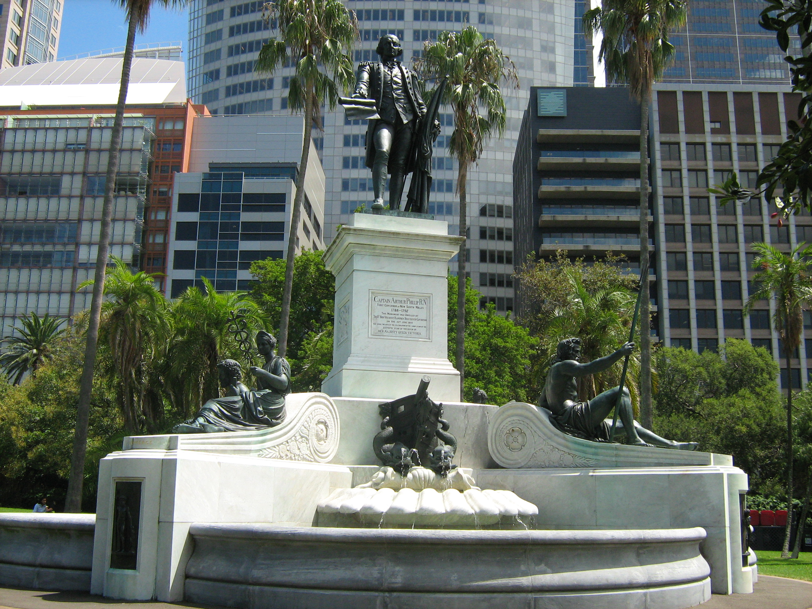 Governor Phillip Fountain, Royal Botanic Gardens, Sydney